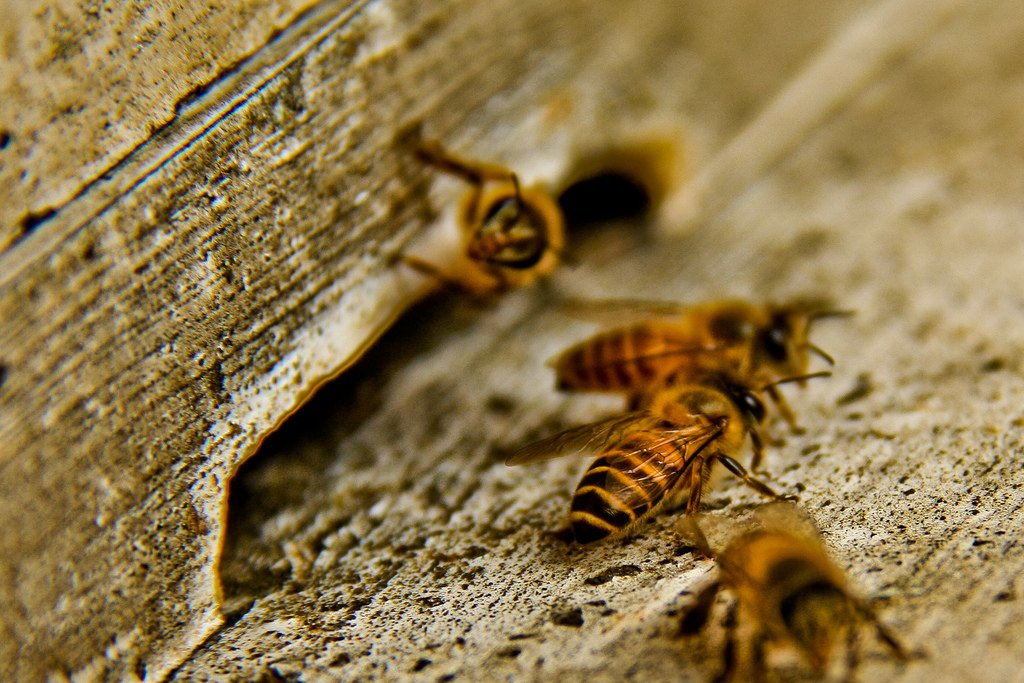 Apis cerena from Nepal